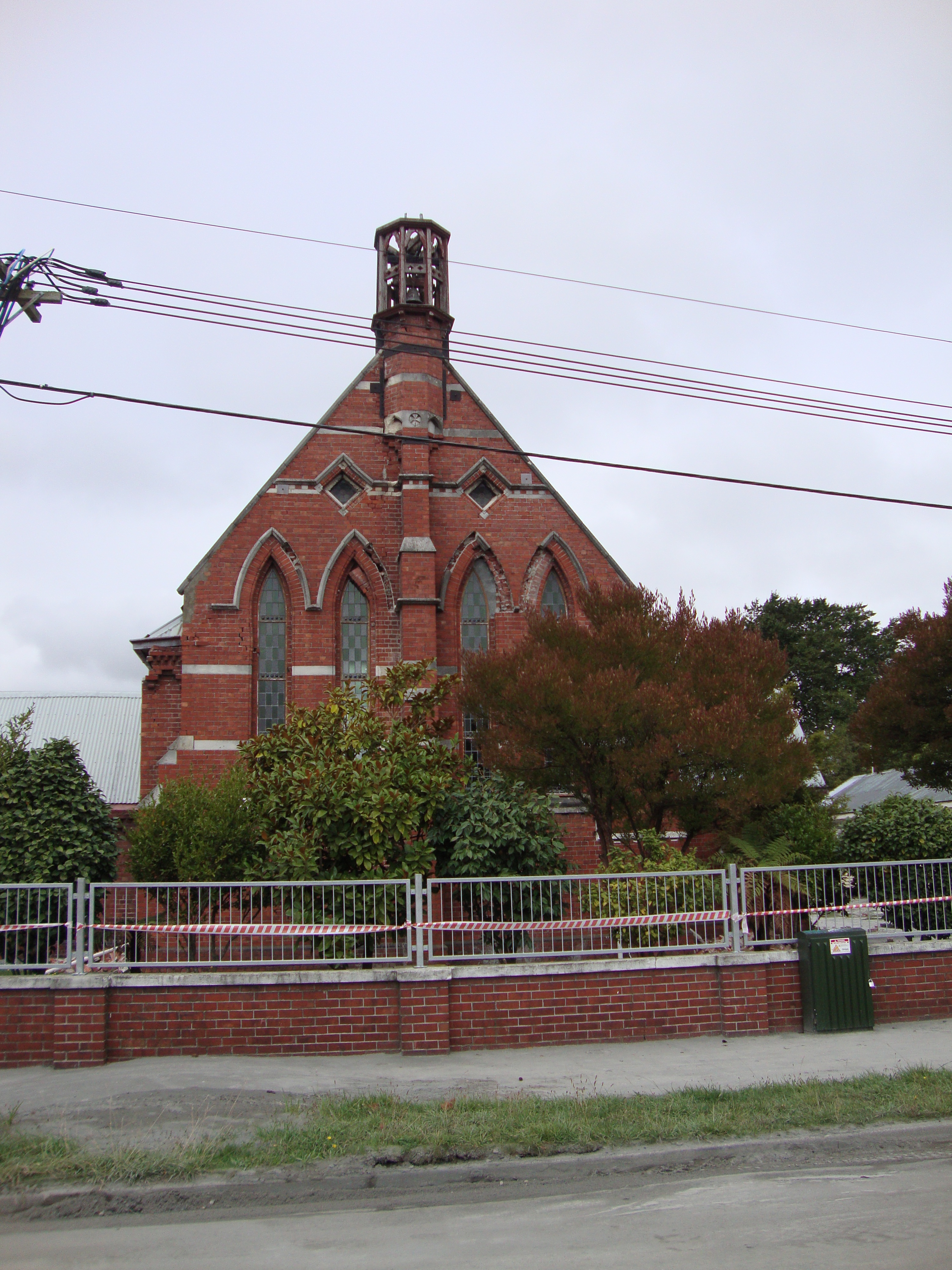 The Church of the Good Shepherd in Phillipstown, Christchurch, after the 22 February 2011 Christchurch earthquake.